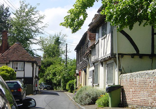 Ludgate Road, Lynsted. The village end of Ludgate Road, behind the flint topped wall on the right is the churchyard.